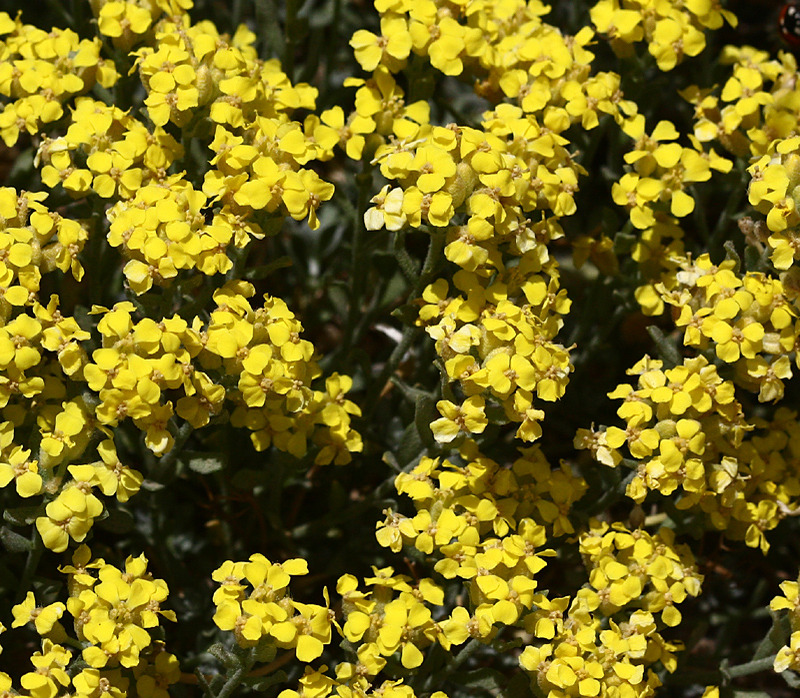 Plants of Israel